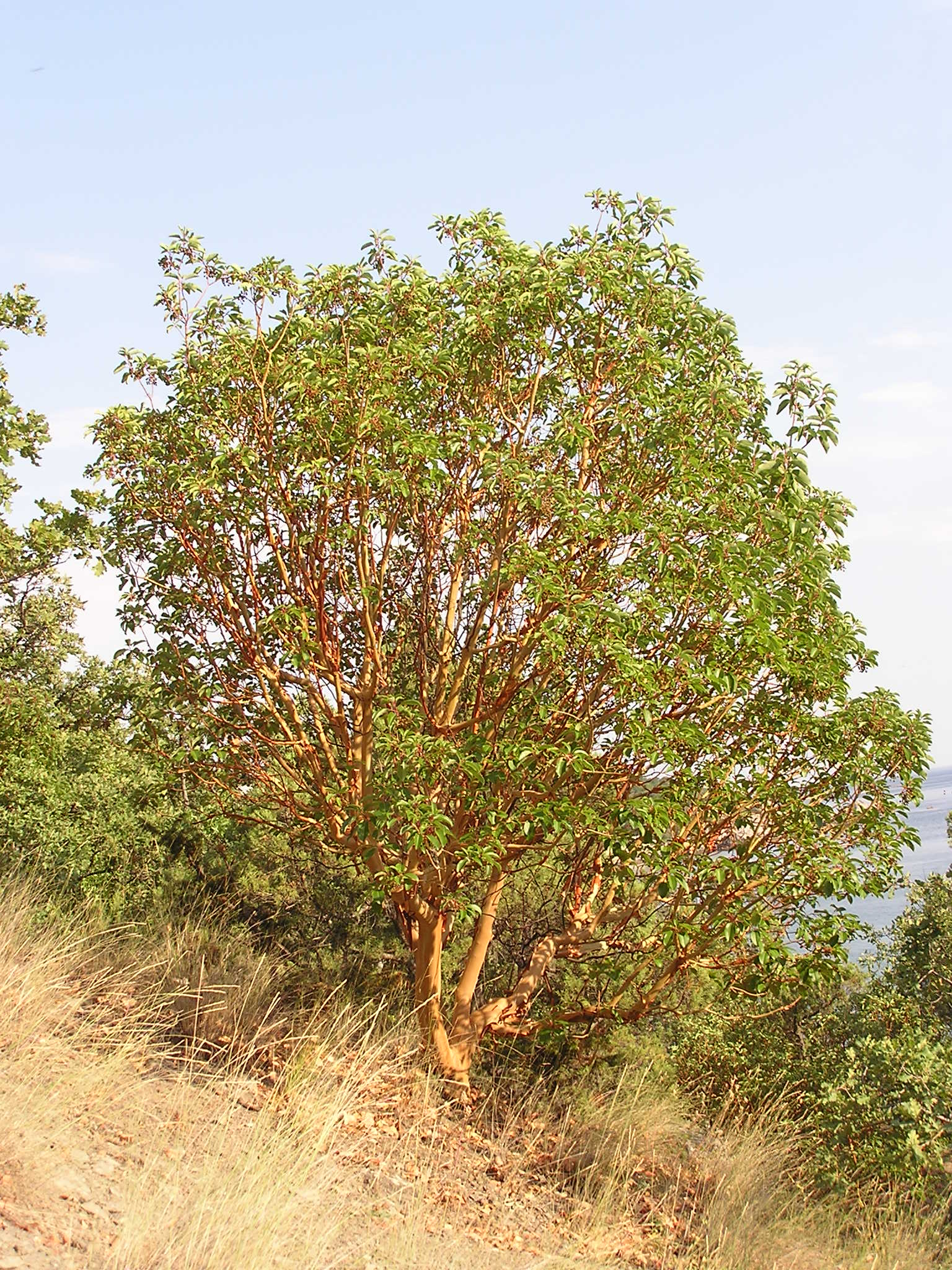 Grecian Strawberry Tree (Cyprus Strawberry Tree). Photo taken in Laspi bay